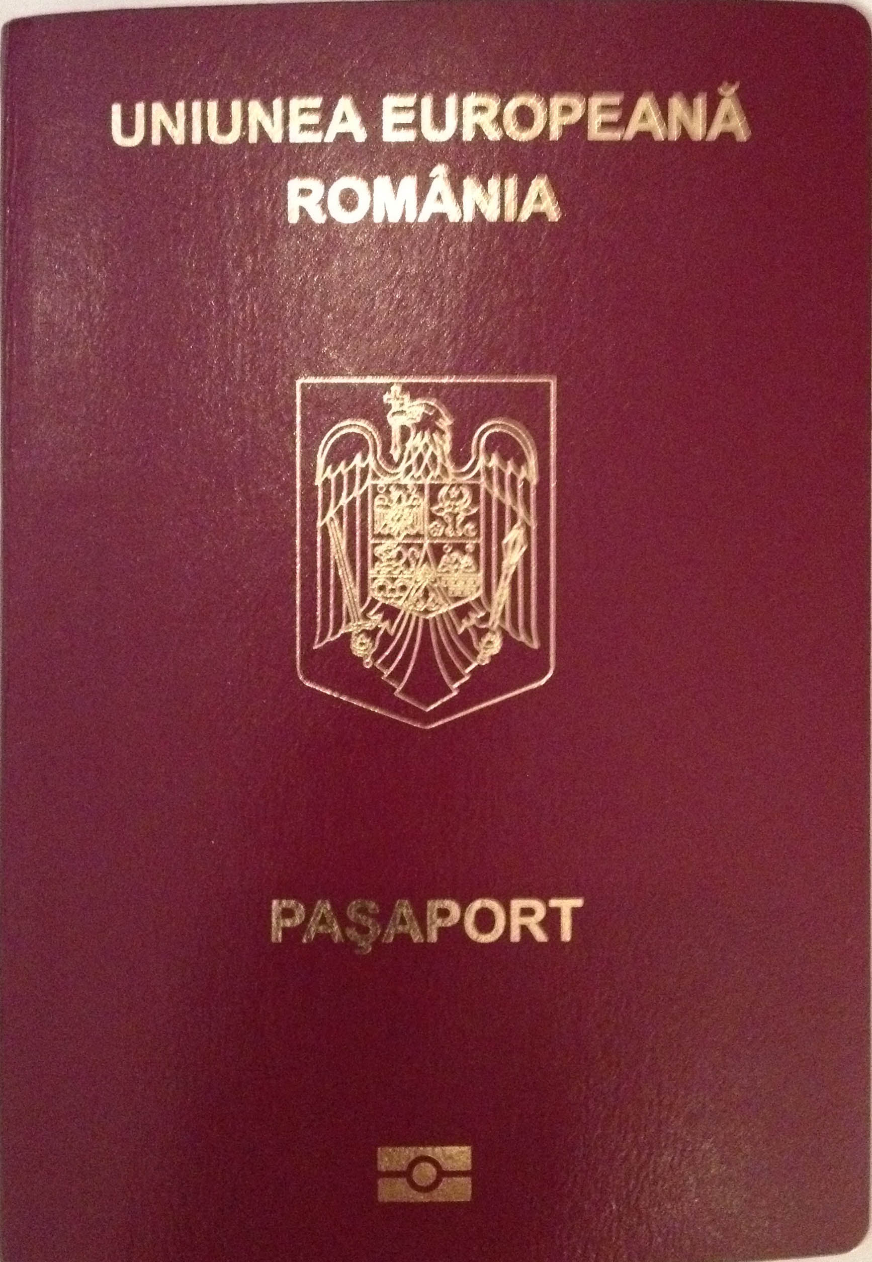 Romanian Passport